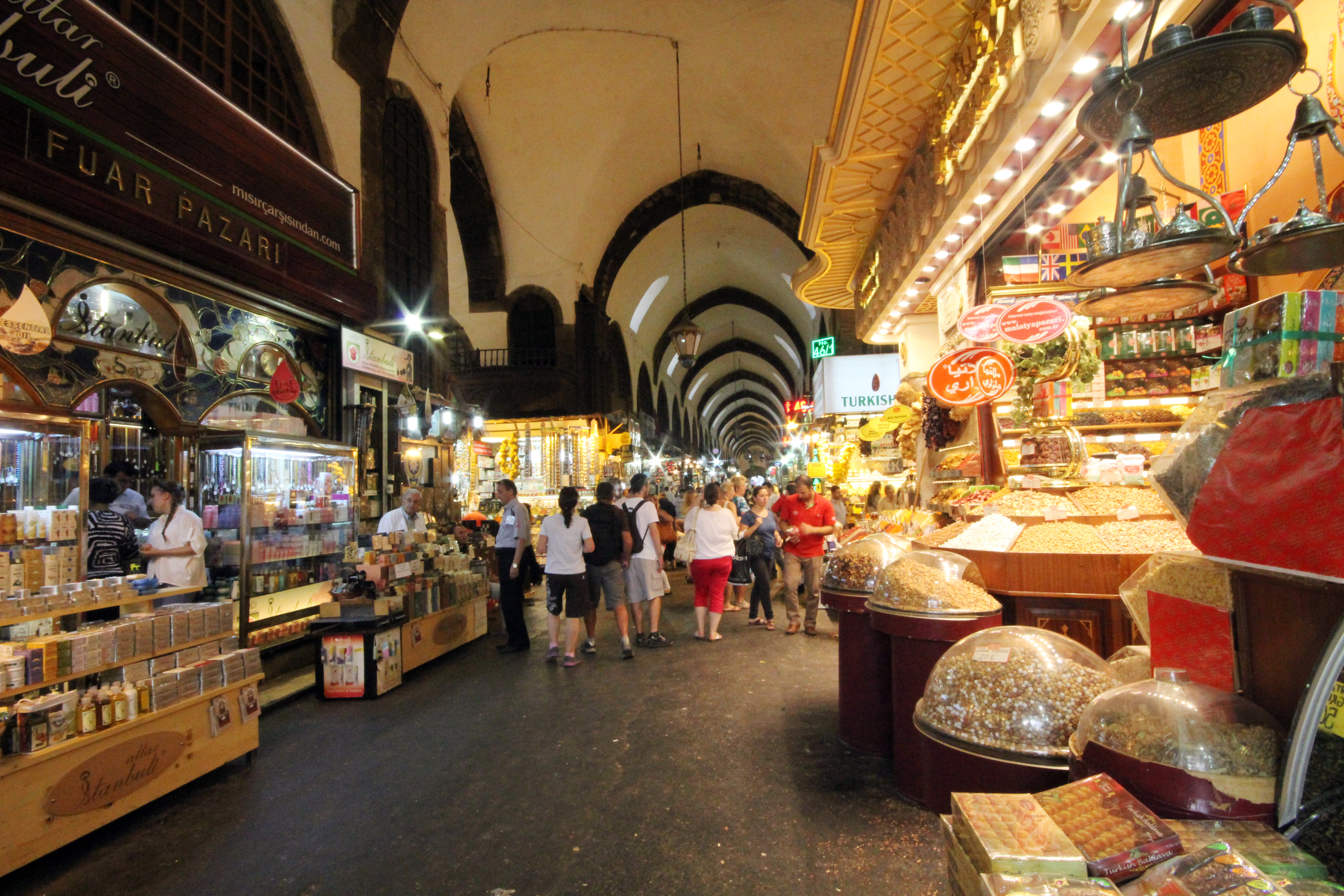 Central coridor with many stands in Spice Bazaar, near of (Yeni Camii) in Istanbul , Turkey